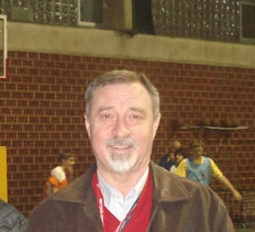 basketball coach Rusmir Halilovic in RIN Academy, Sarajevo 2010.